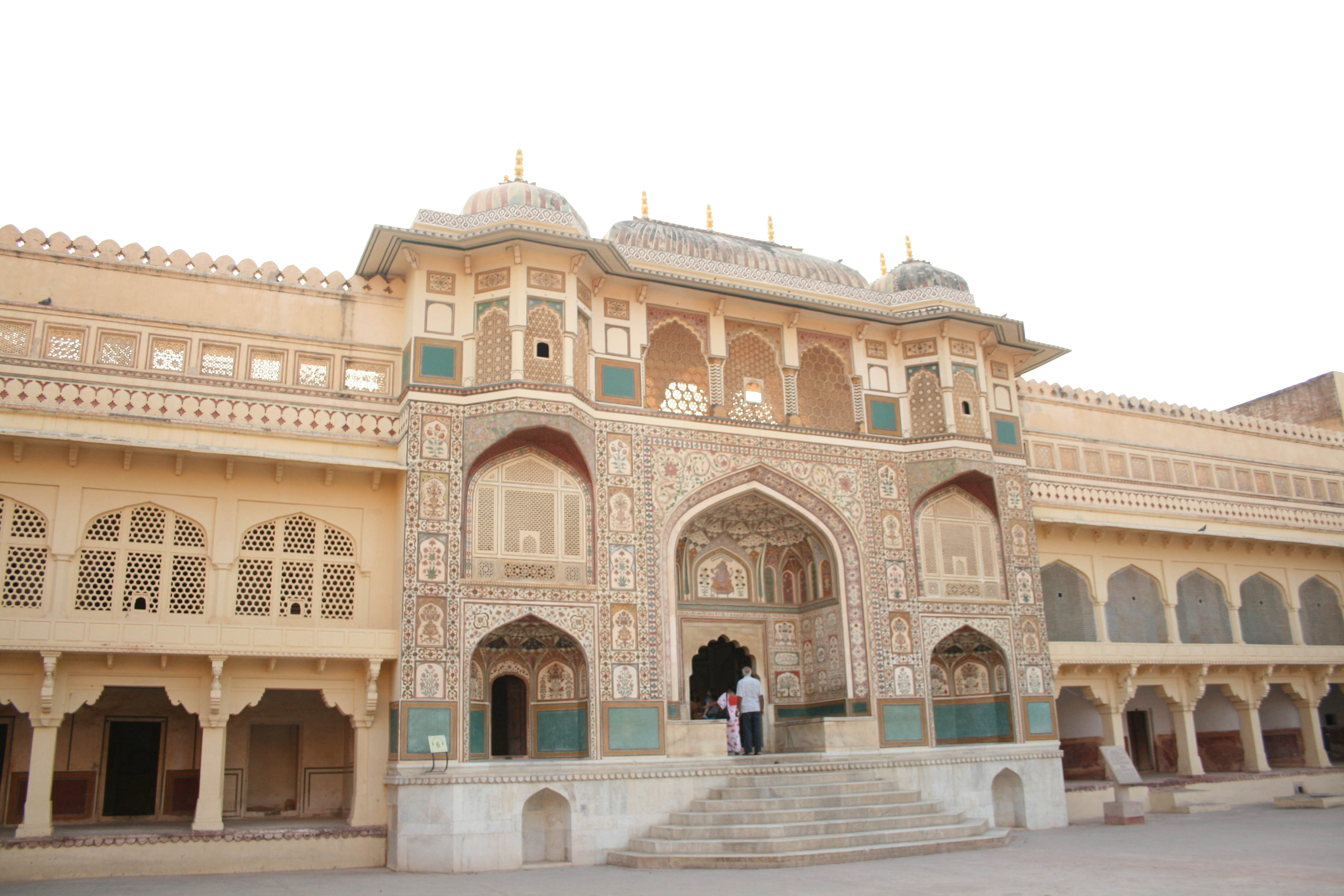 Amber Fort, Jaipur, India